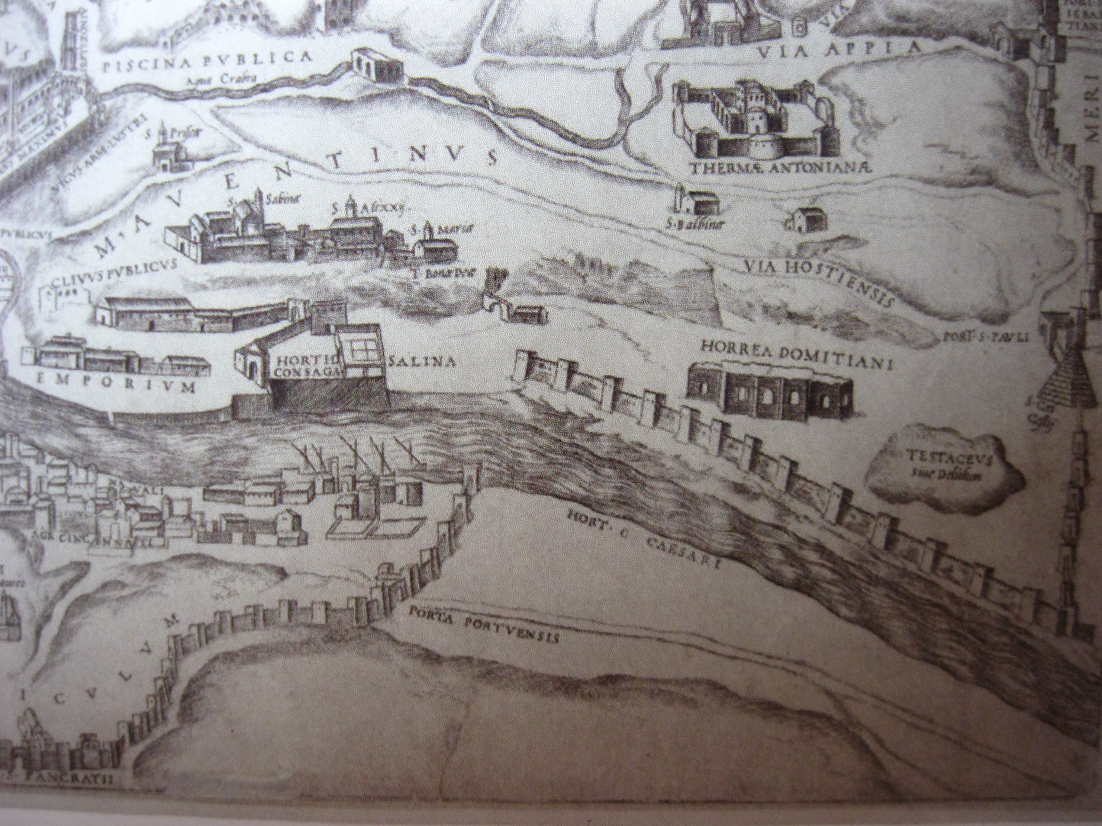 1561 Ligorio Rome Map